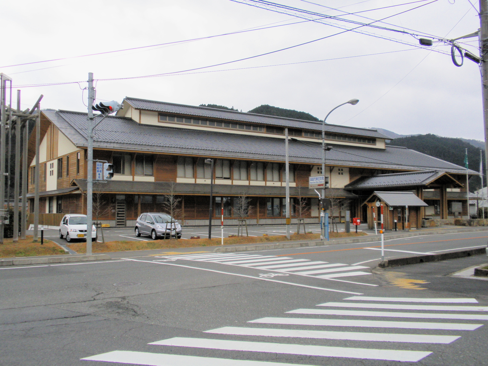 Maniwa city office Mikamo branch Former Mikamo village office (2004.2 - 2005.3.30)